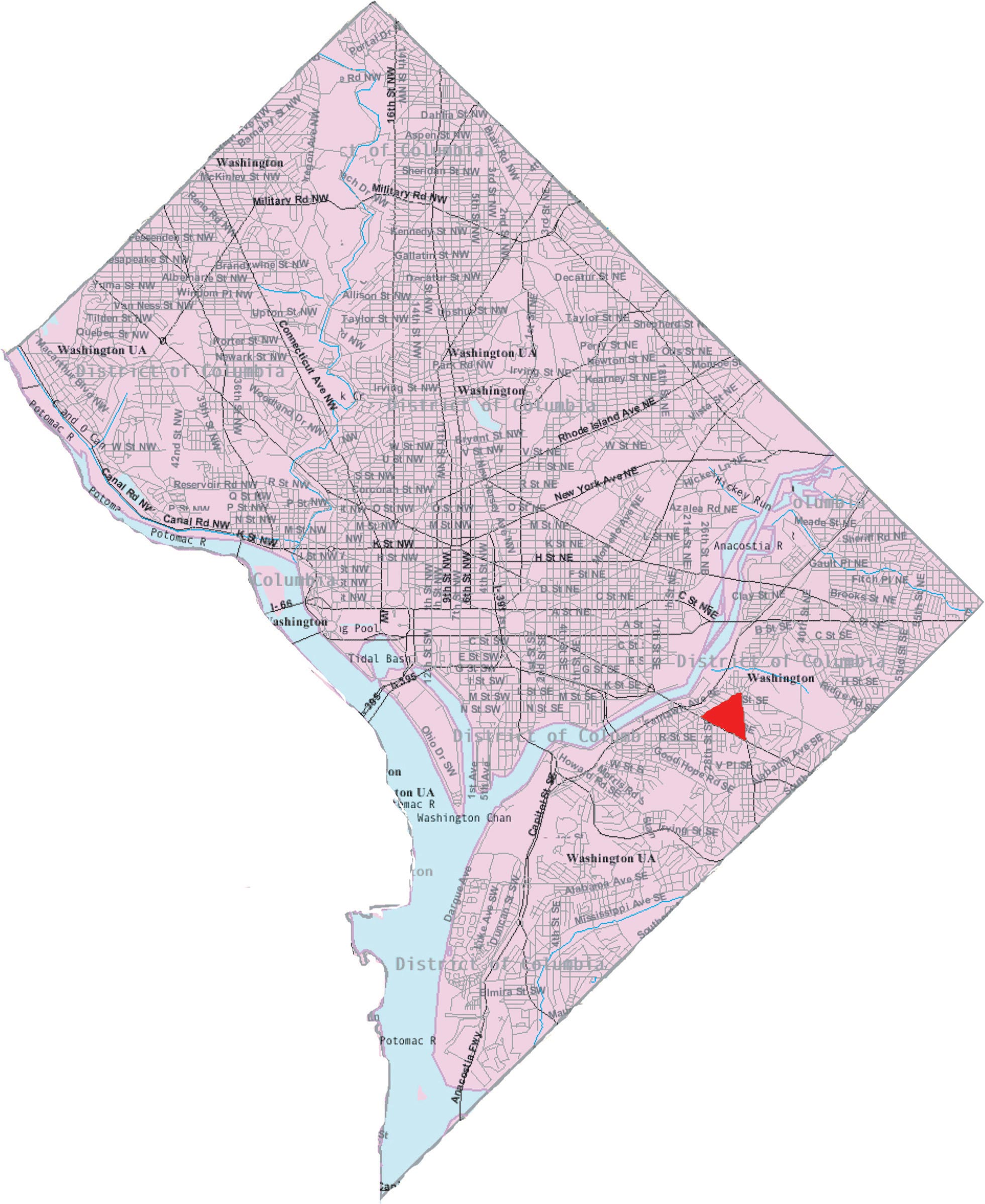 This image is a modified version of a self-generated reference map from the U.S. Census Bureau's American Factfinder at by Wikipedia user Msclguru.